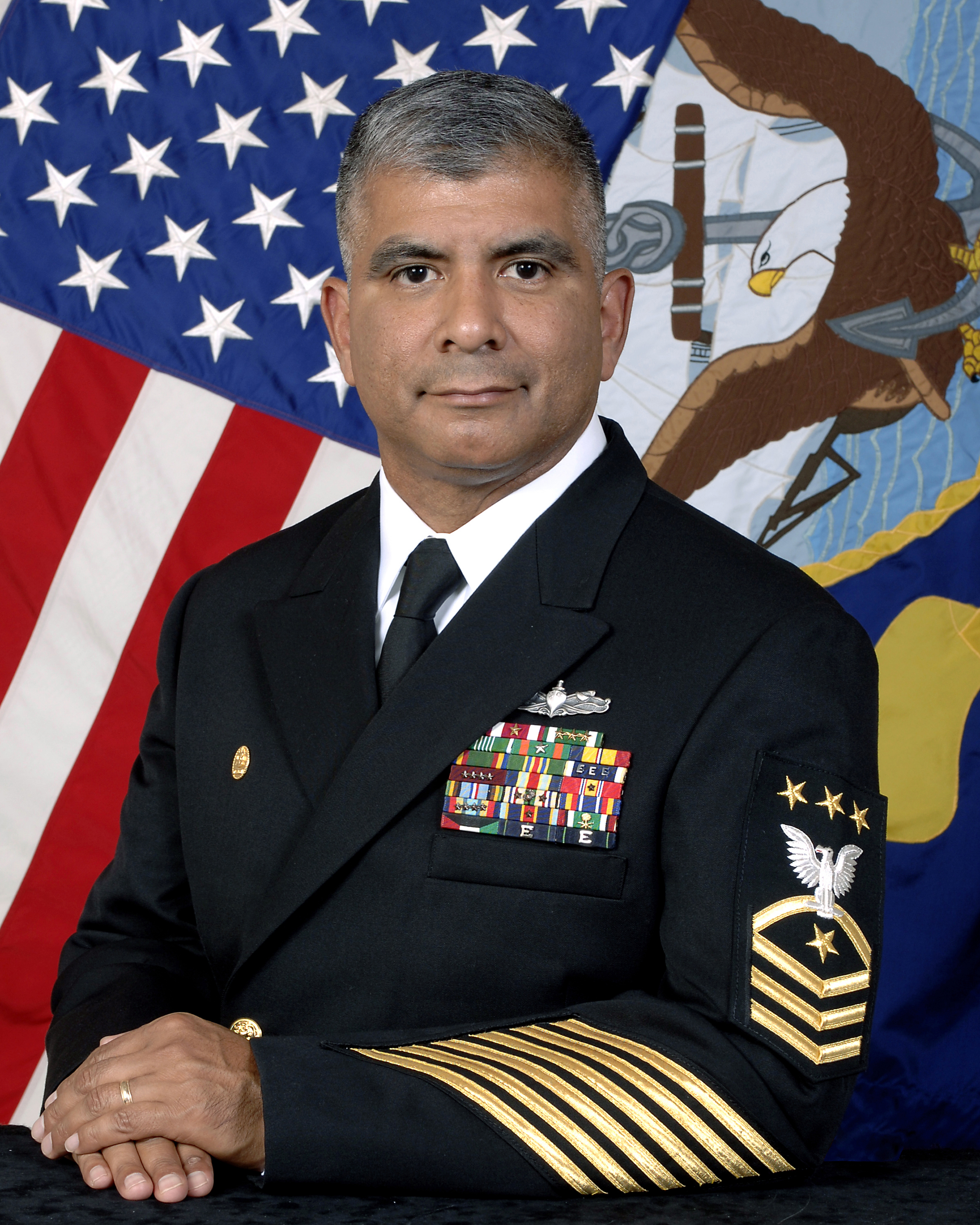 Official File Photo of Master Chief Petty Officer of the Navy Joe R. Campa Jr. U.S. Navy photo (RELEASED)